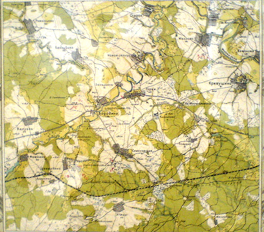 1912 map of Borodino battlefield area.